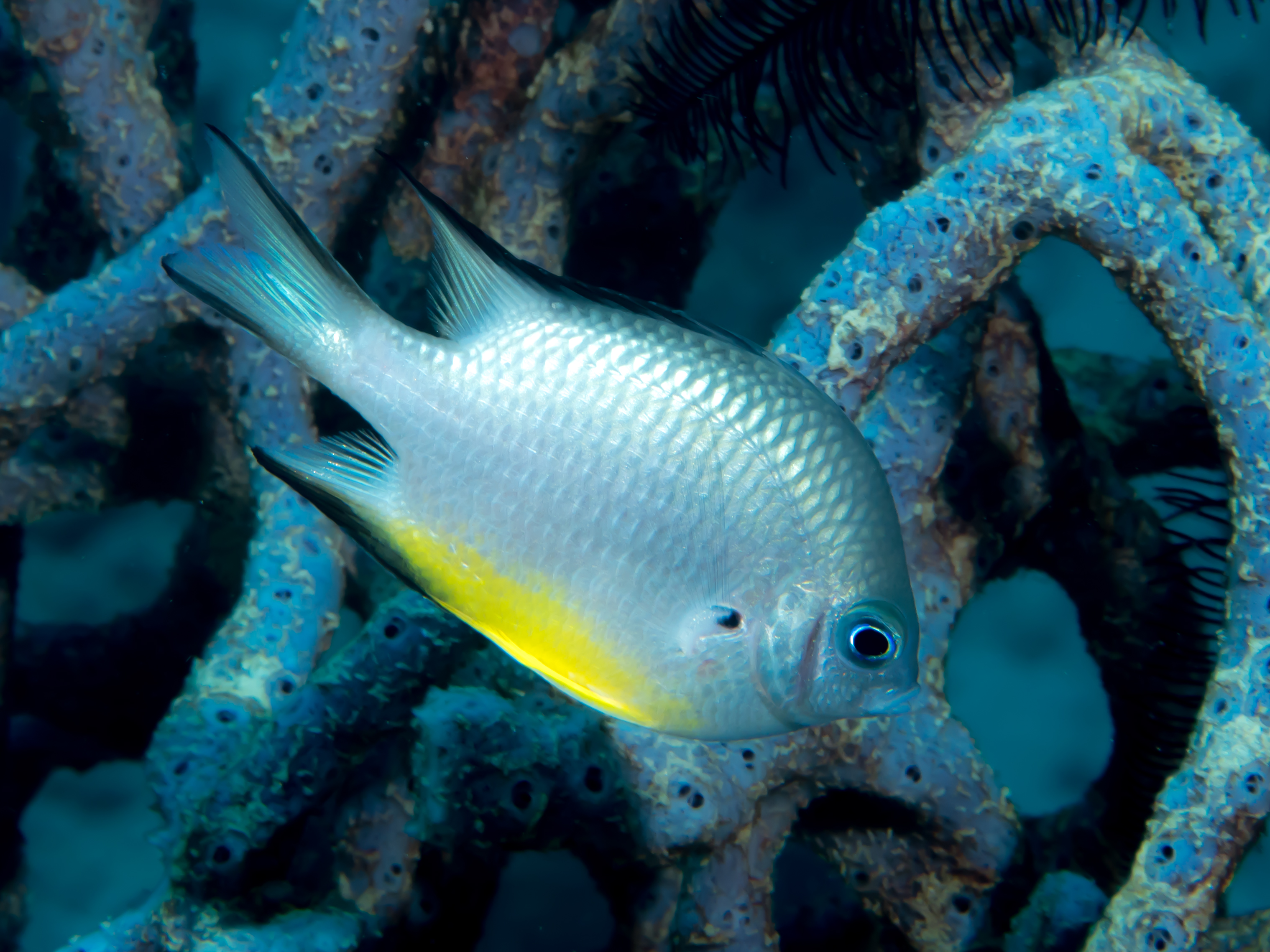 Romblon, Philippines - White-belly Damsel(Amblyglyphidodon leucogaster)